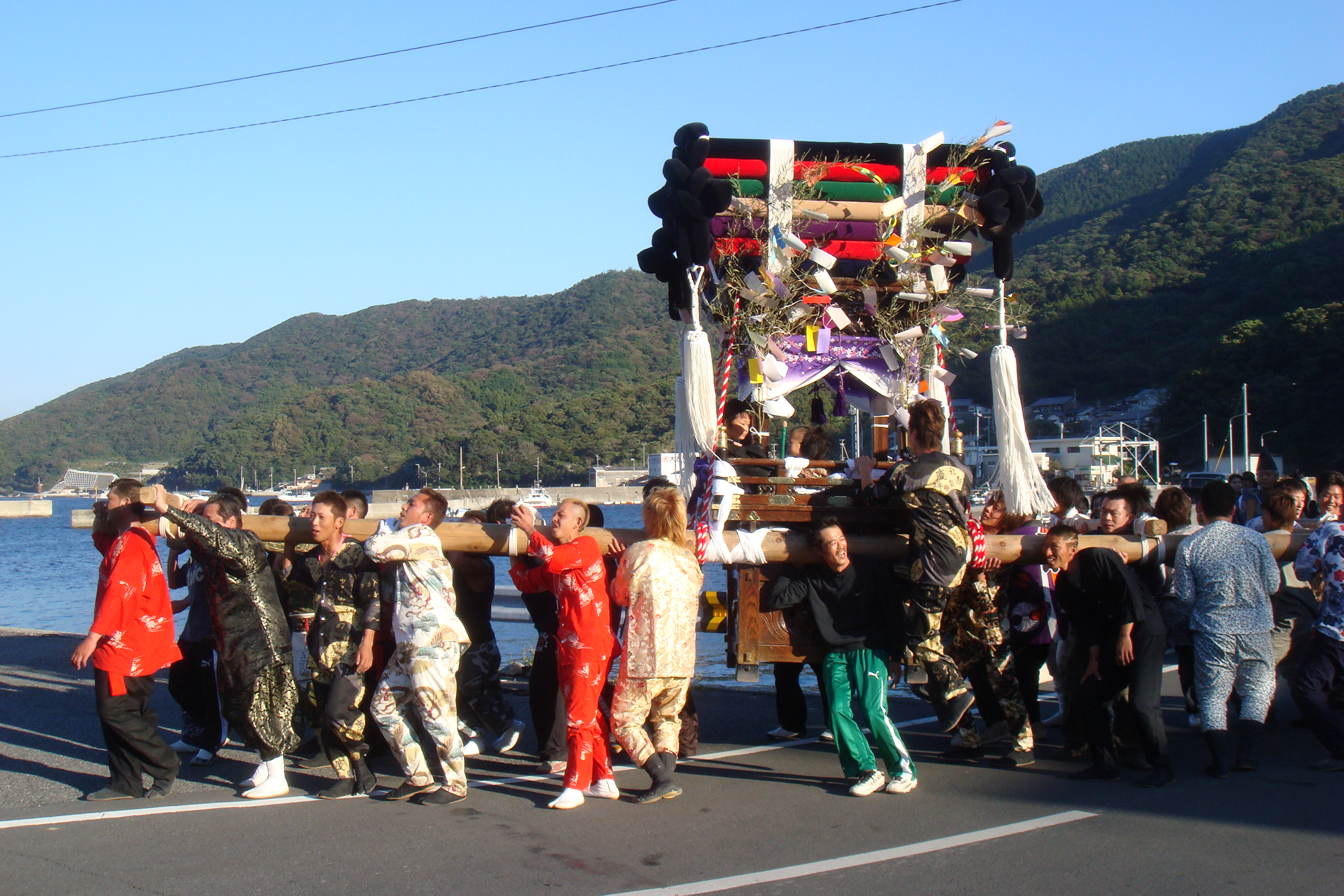 A photo of Aki Matsuri (fall festival) in the village of Fukuura, in Ainan, Japan. The men in the photo are mostly fisherman and they are carrying a mikoshi, a type of portable shrine used during festivals in Japan. The photo was uploaded by the author, an English teacher working in the town.